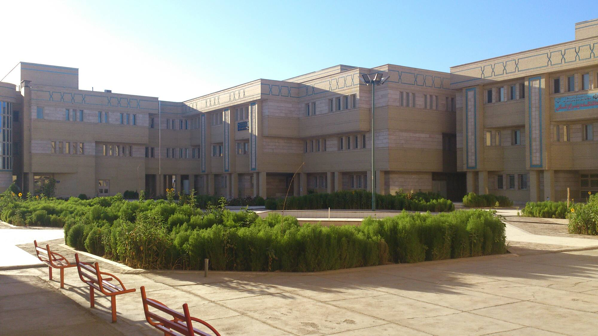 نمایی از دانشکده پیراپزشکی و بهداشت و مرکز تحقیقات حیوانات آزمایشگاهی